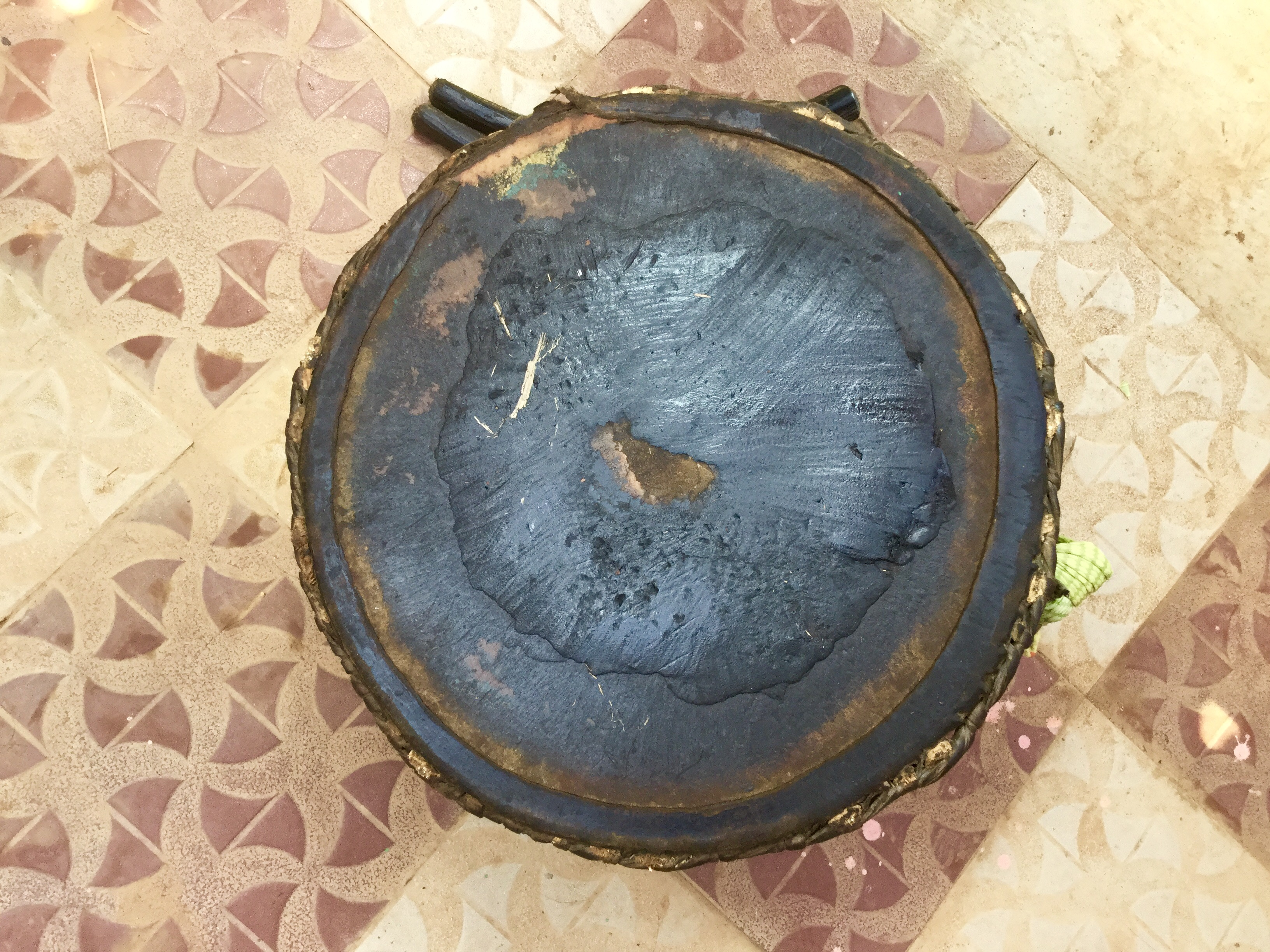 The Tamak (pronounced Taa-muk with a hard 'T' as in 'Tomato') is one of a traditional instrument of the state of Odisha, India. It consists of skin stretched over a wooden base. ଓଡ଼ିଆ: ଟାମକ୍ (ବୋଧହୁଏ ଟମକ ଶବ୍ଦରୁ ଉତ୍ପନ୍ନ) ଓଡ଼ିଶାର ଏକ ପାରମ୍ପରିକ ବାଦ୍ୟଯନ୍ତ୍ର । ଏଥିରେ ପଶୁ ଚମଡ଼ାକୁ କାଠ ଉପରେ ଟଣାଯାଇ ଦୁଇଗୋଟି କାଠଖଣ୍ଡରେ ବାଜା ବଜାଯାଏ ।